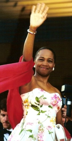 Barbara Hendricks at the Cannes film festival